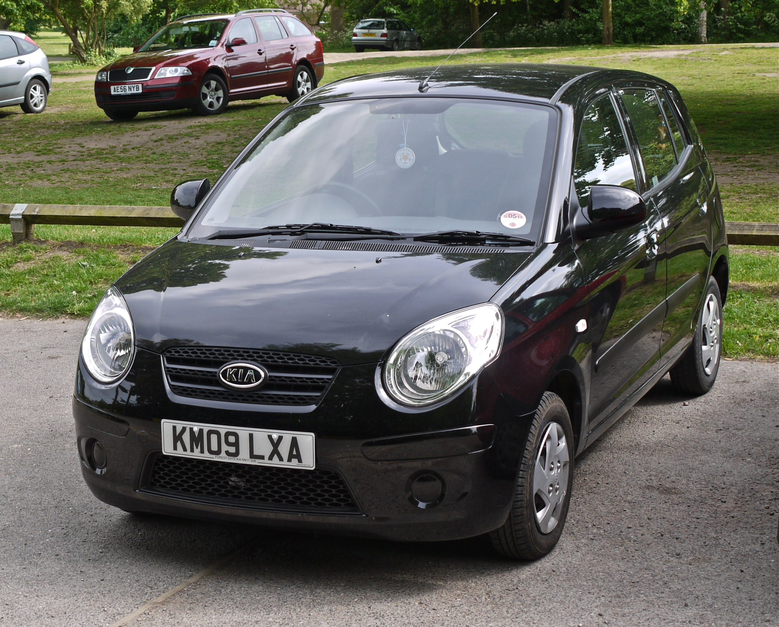 Picanto has been in production now for 7 years. A testament to the quality of these excellent little cars. Panasonic G1 14-45 Lens